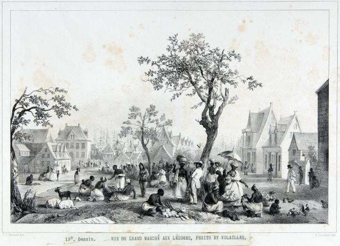 View of a market